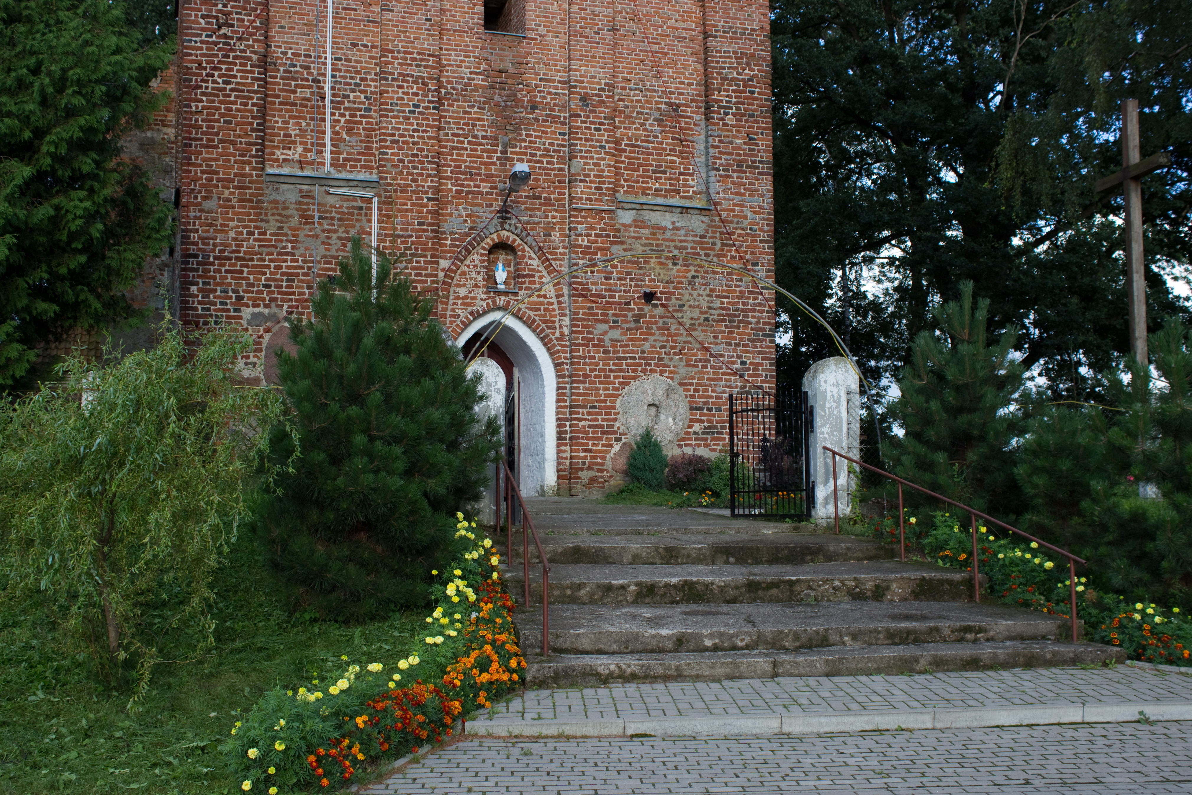 Our Lady of Częstochowa church in Kraskowo, powiat kętrzyński, Warmian-Masurian Voivodeship